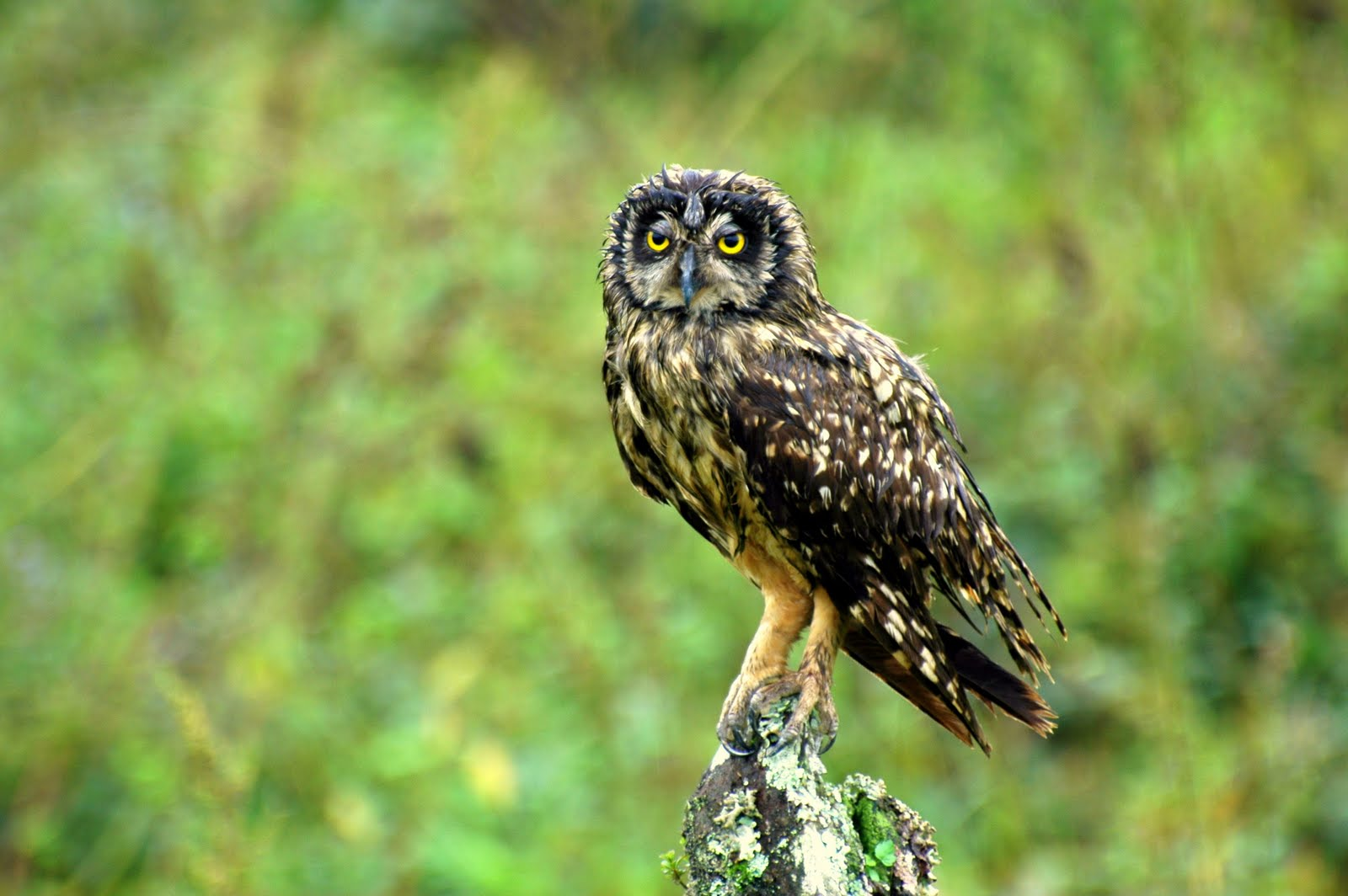 A Short-eared Owl on Santa Cruz Island, Galapagos, Ecuador.